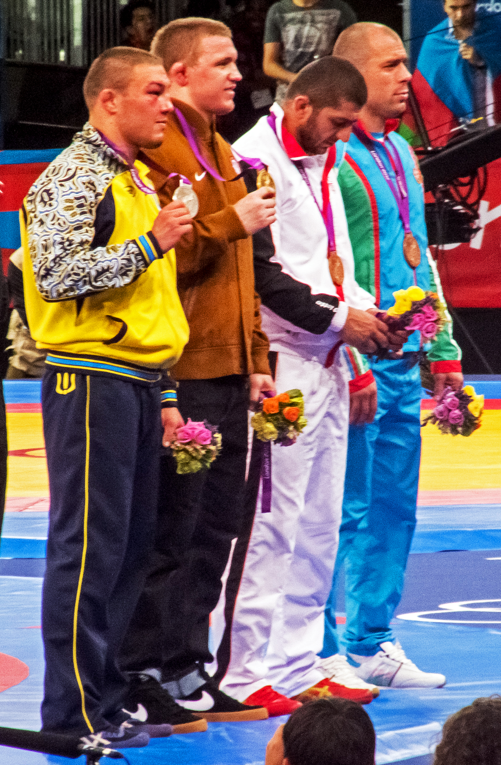 Medalists at the 2012 Summer Olympics. Left to right: Valerii Andriitsev (silver), Jake Varner (gold), Giorgi Gogshelidze (bronze) and Khetag Gazyumov (bronze).